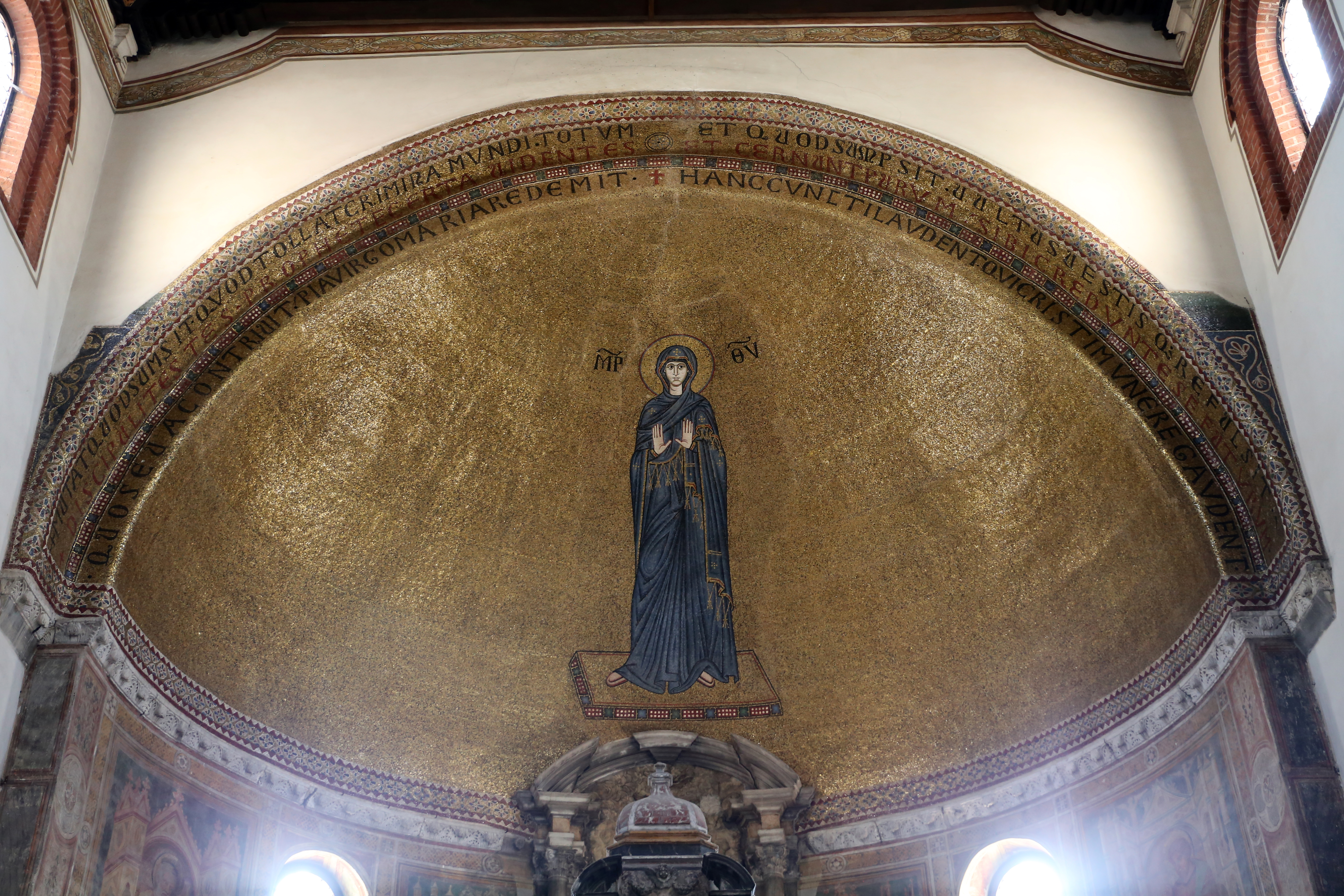 Santa Maria and San Donato (Murano) - Interior